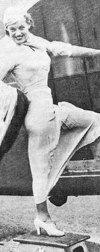 Eleanor Holm won the 100-meter backstroke in 1932 and was on her way to Berlin to defend her title when she was overtaken by a major scandal.